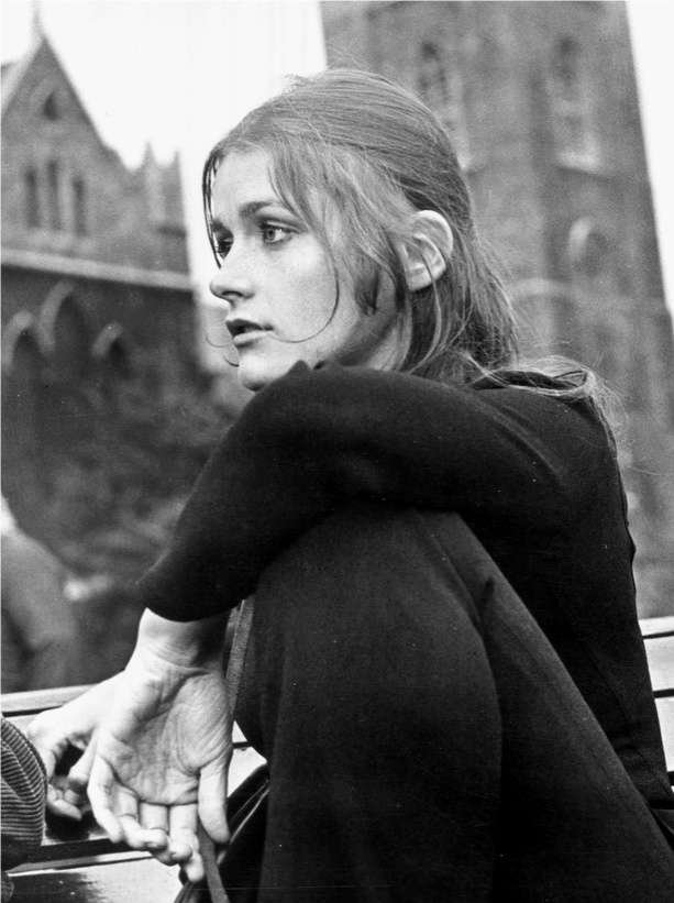 Margot Kidder in a publicity photo for Quackser Fortune Has a Cousin in The Bronx (1970)